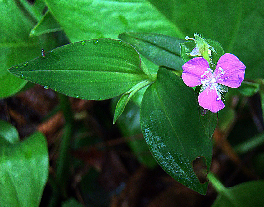 Native to the wet mountains of Mesoamerica. Photo from near Dota, Costa Rica. In context at